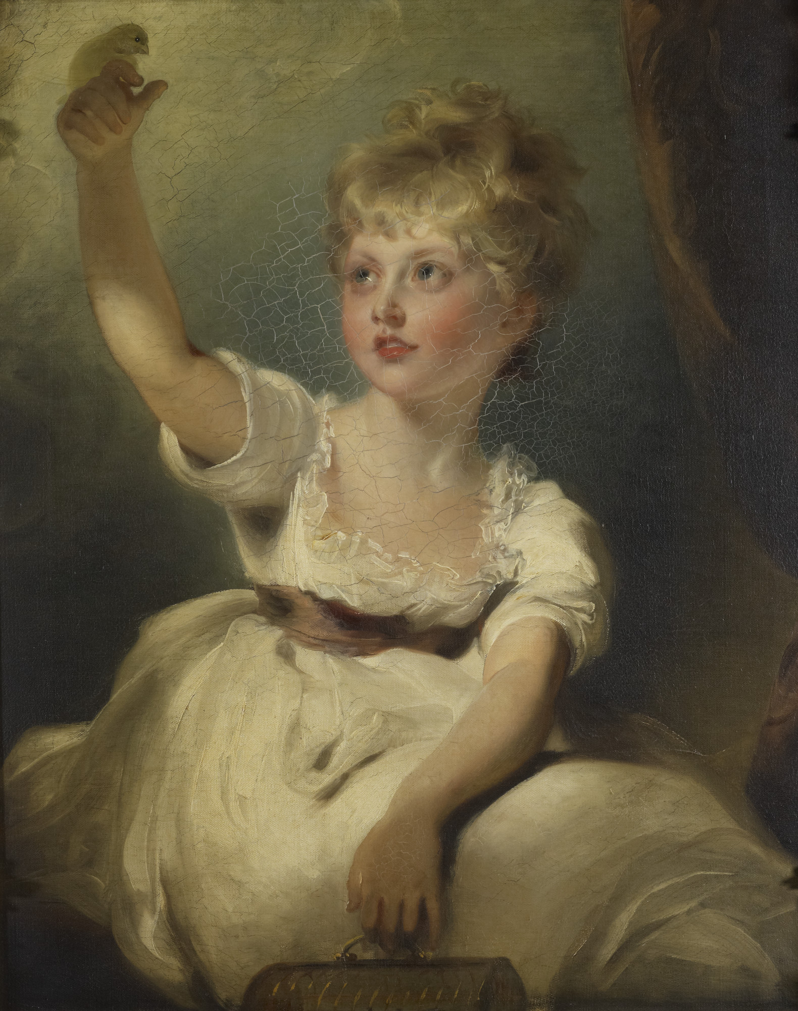 Portrait in oils of Princess Charlotte of Wales by Sir Thomas Lawrence, circa 1801